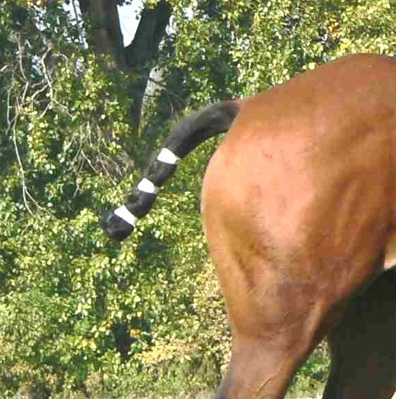 Polo pony, closeup of rear in profile. The skirt of the tail has been braided, folded up onto the tailbone, and taped.